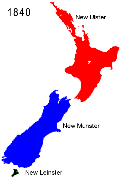 Map of Provinces of New Zealand in 1840